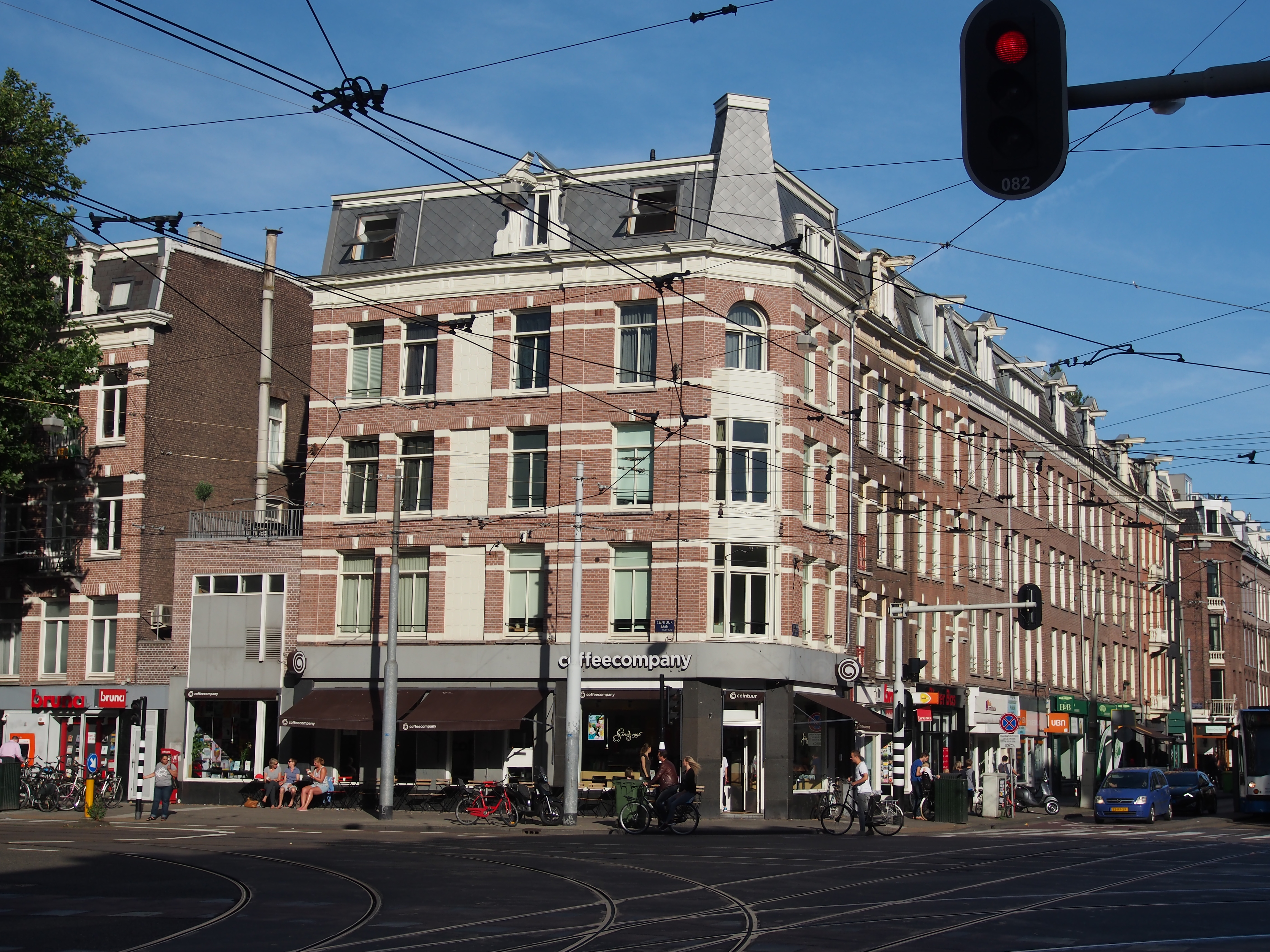 Photographed in Amsterdam.